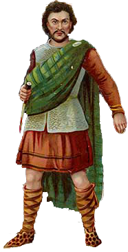 Mass-produced colour photolithography on paper for Toy Theatre; Macbeth (background and surroundings removed)